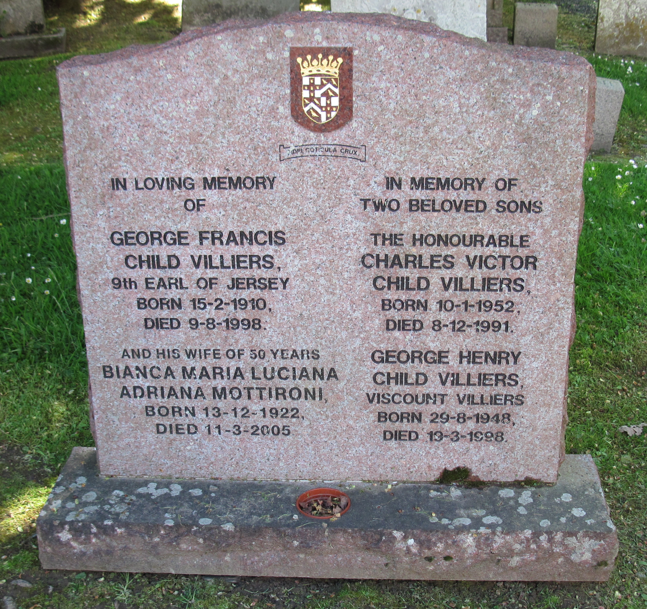 Grouville Parish Church Nrf: Églyise Pârouaîssiale dé Grouville